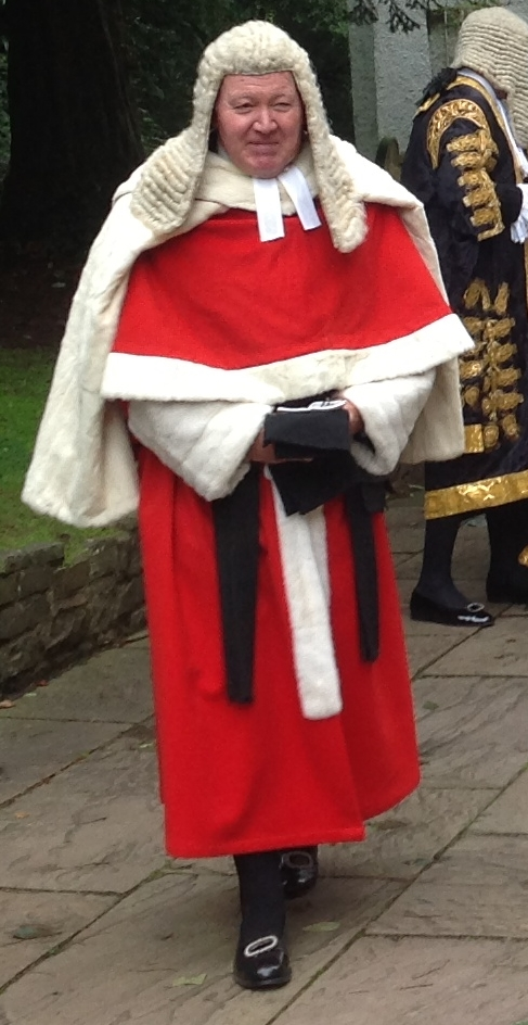 Mr Justice Griffith Williams (Sir John Griffith Williams) in procession at Llandaff Cathedral in 2013